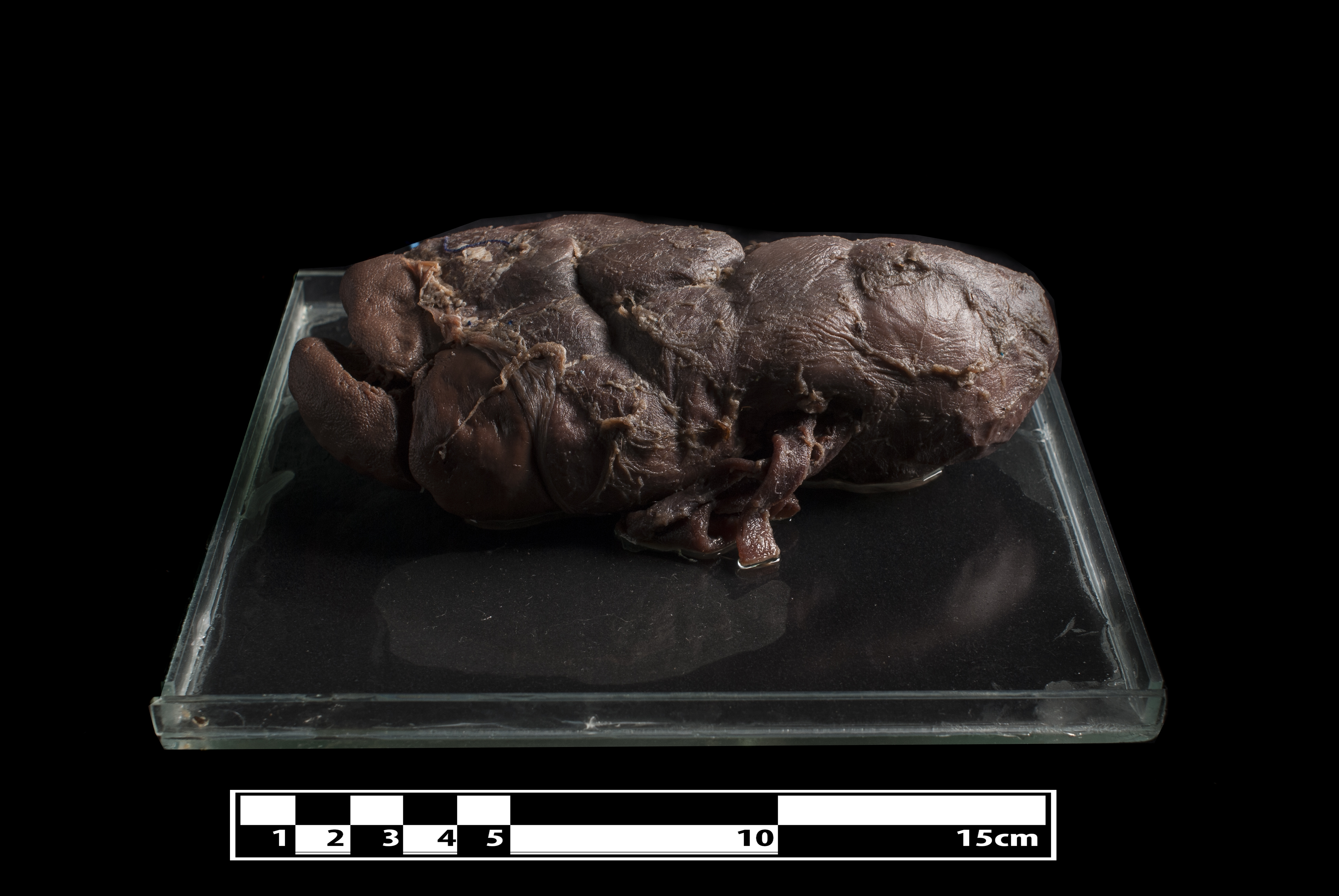 Bovine kidney. Bos taurus Technique of glycerination on display at the Museum of Veterinary Anatomy FMVZ USP. This file was published as the result of a partnership between the Museum of Veterinary Anatomy FMVZ USP, the RIDC NeuroMat and the Wikimedia Community User Group Brasil. This GLAM project is reported. Photography: Museum of Veterinary Anatomy FMVZ USP. Author: Wagner Souza e Silva.